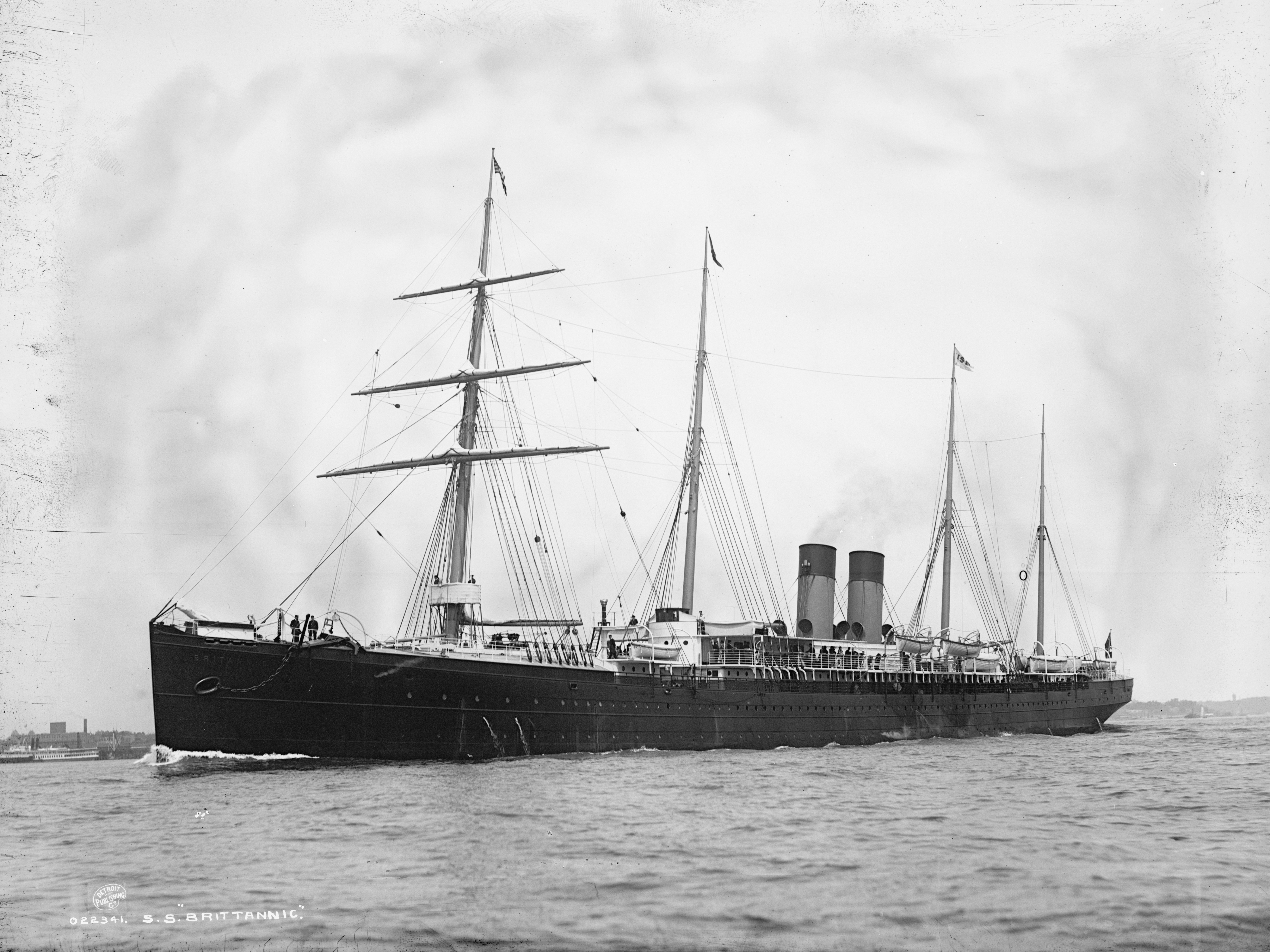 SS Britannic